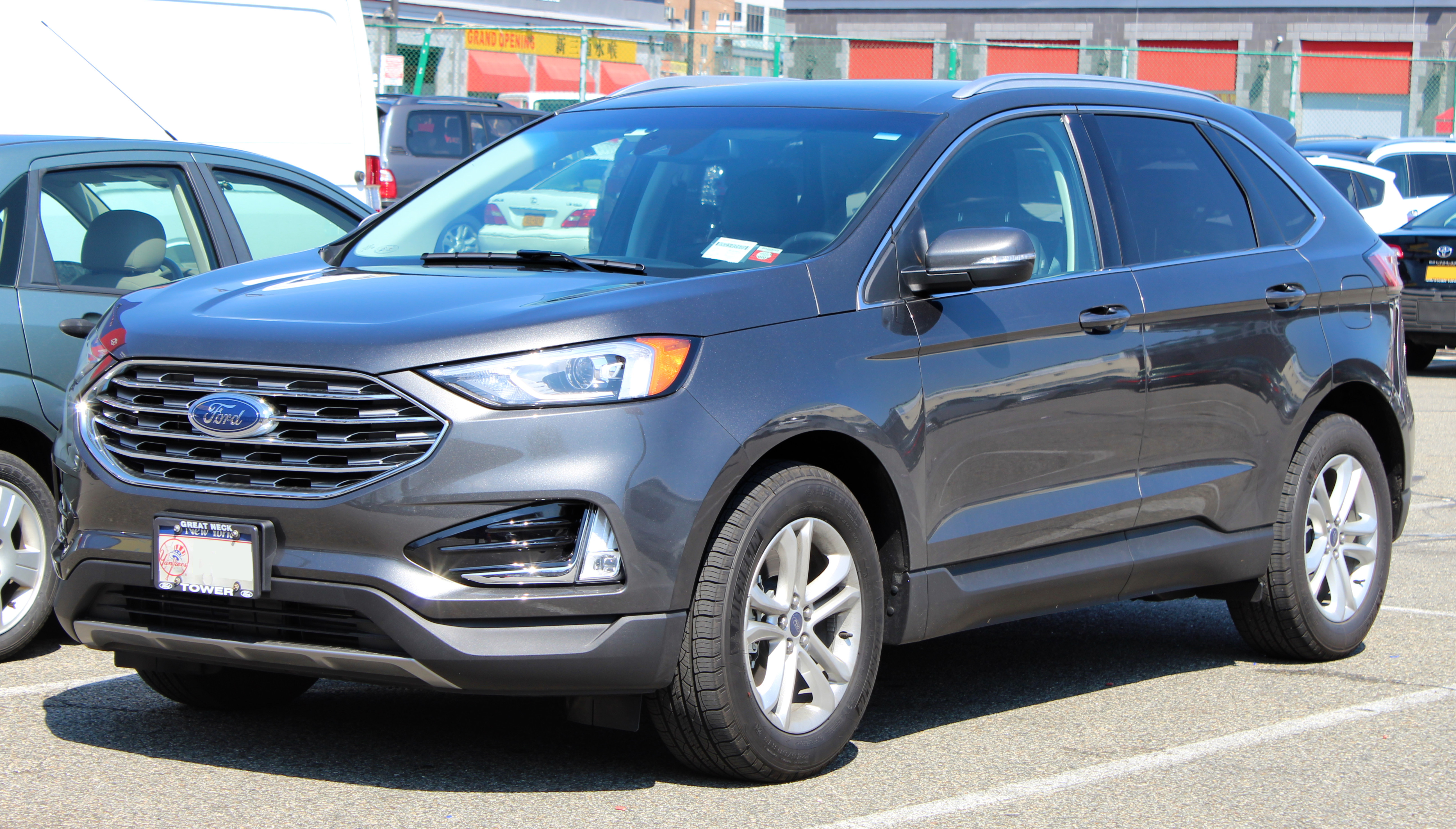 A 2019 Ford Edge photographed in Flushing, Queens, New York, USA